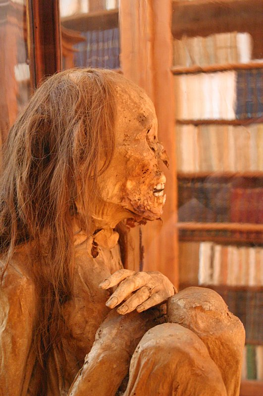 Mummy from Peru, at the Carmo Convent. The display says it is pre-Columbian but offers little other information.